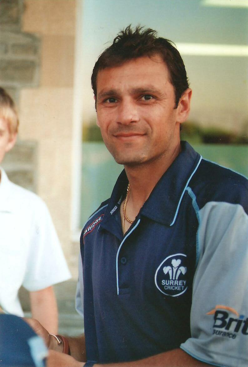 A photograph of Mark Ramprakash.